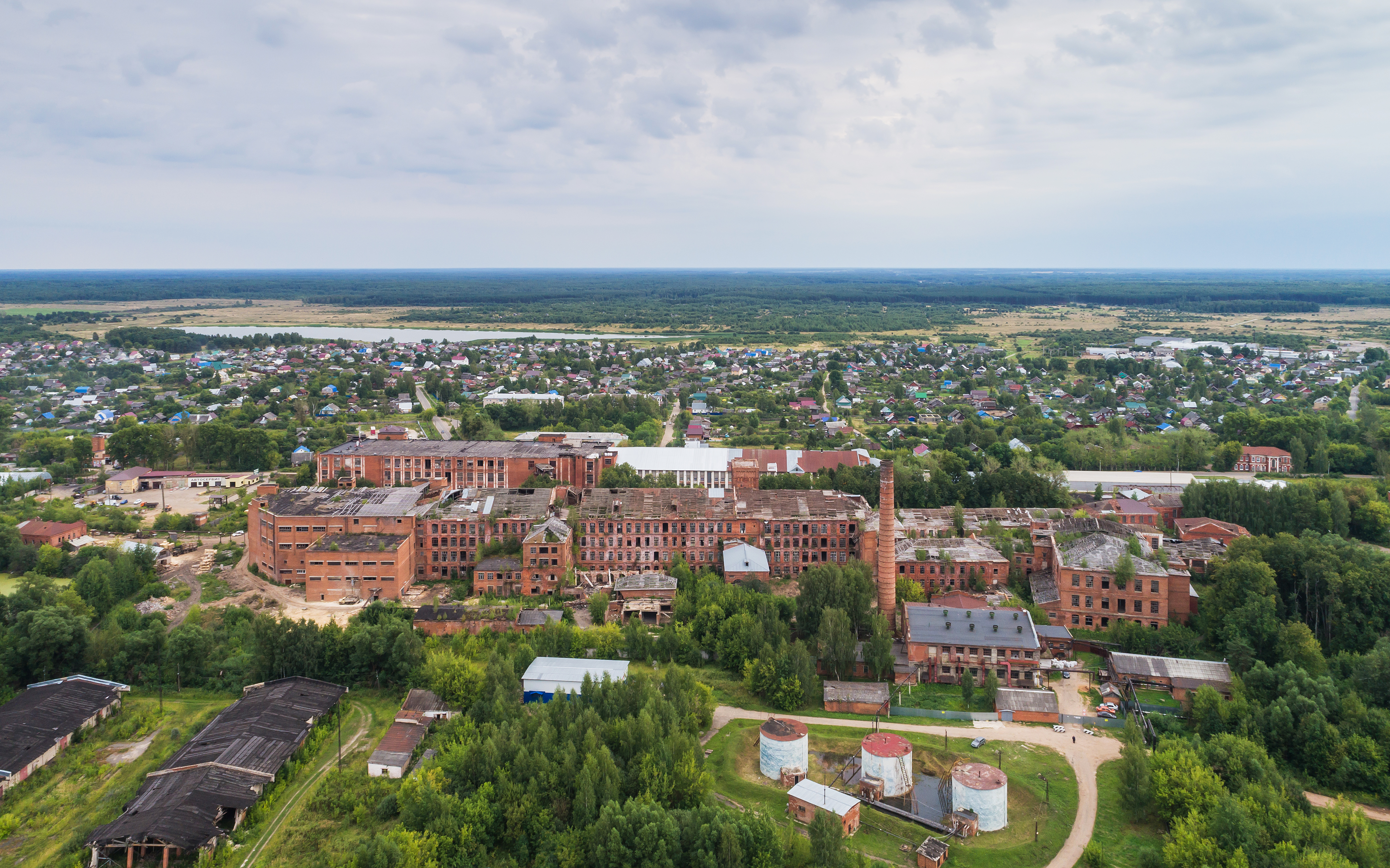 Aerial photo of the ruined former weaving mill in Vichuga, Ivanovo Oblast, Russia.